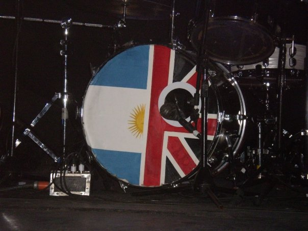 Photo of drumkit with hybrid Argentine-UK flag (the draytones logo)